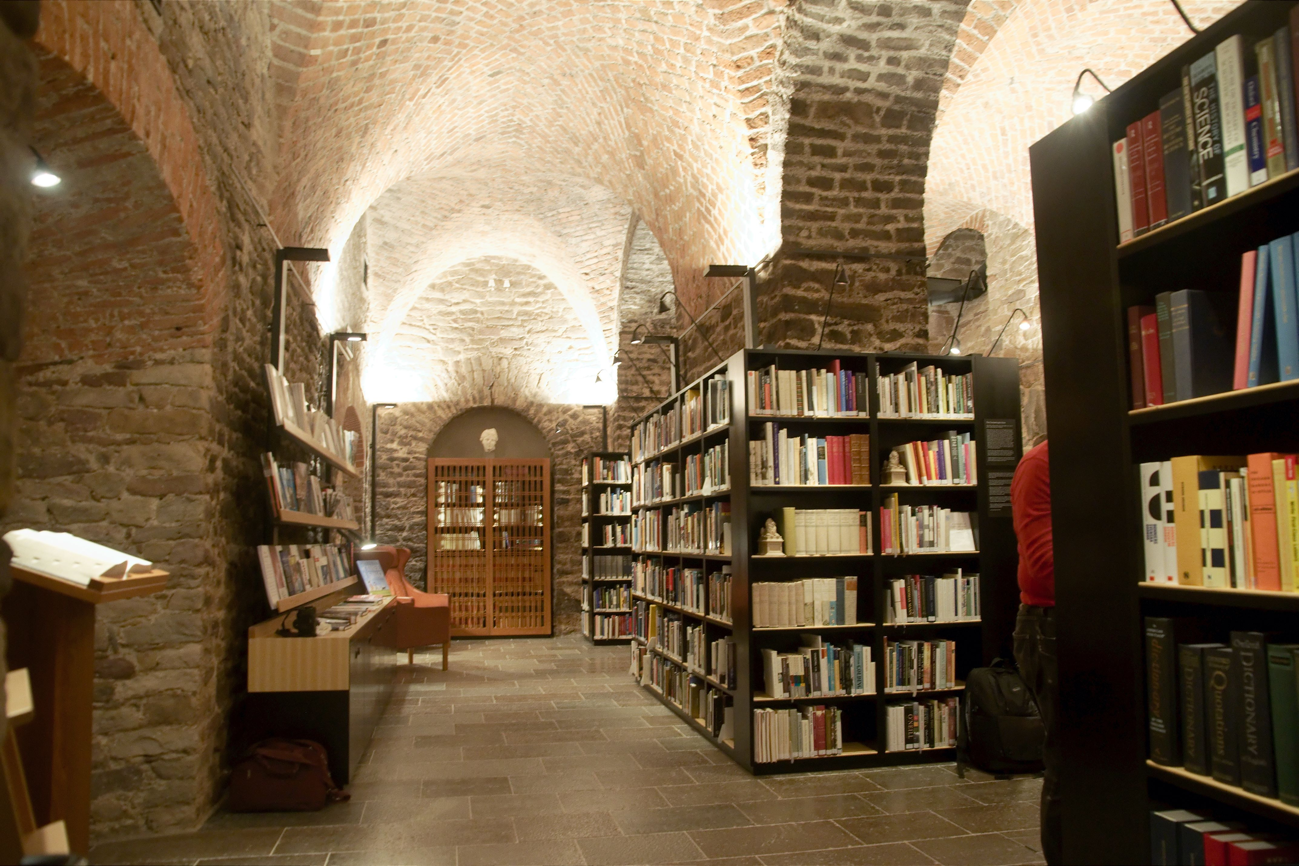 Packstagepass at the Nobel museum, Stockholm